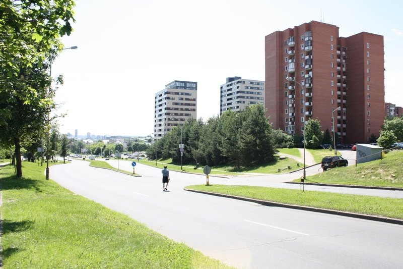 Baltupiai district in Vilnius, Lithuania